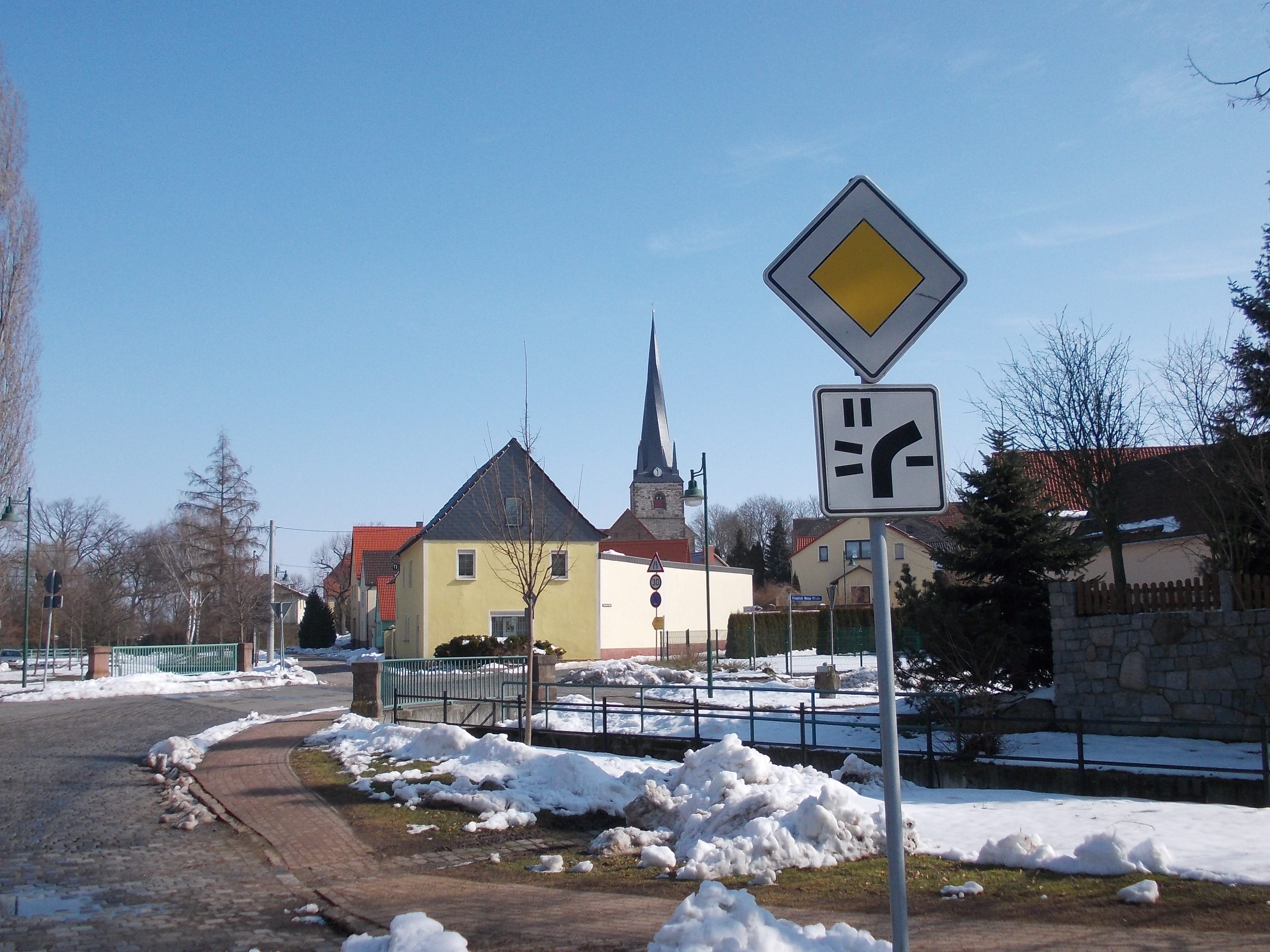 Crossroads near the church in Barnstädt (district of Saalekreis, Saxony-Anhalt)